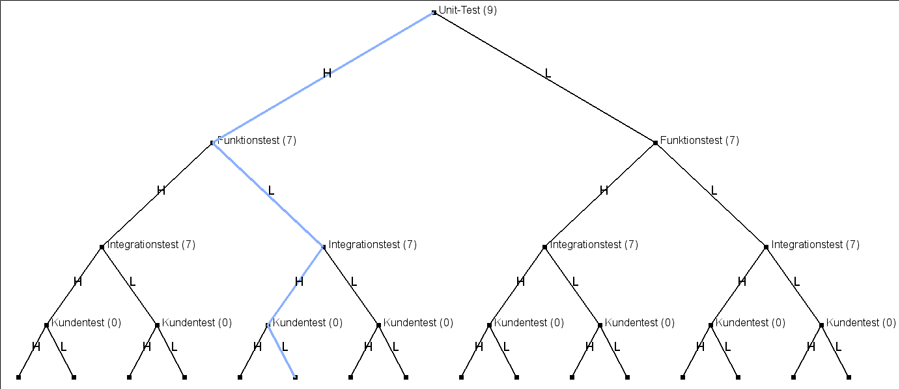 Visualization of an inference tree analysis (de: Inferenzbaum-Analyse)